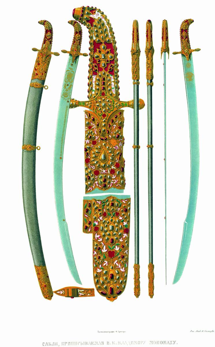 Sabre, end of XVII century.